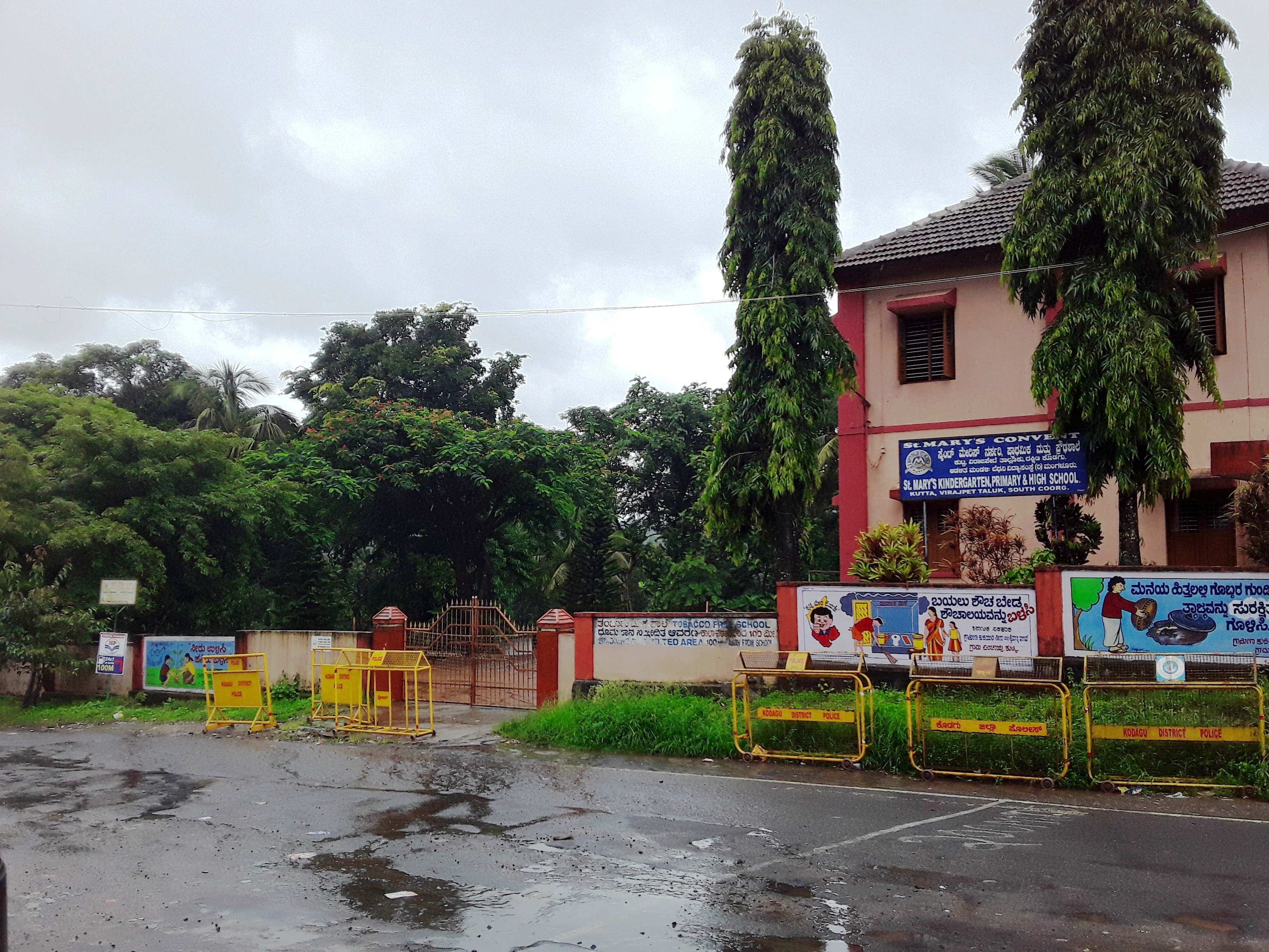 Kutta is a border town demarking Kerala and Karnataka states. Locationː Gonikoppal, Kodagu district, Karnataka state, India.